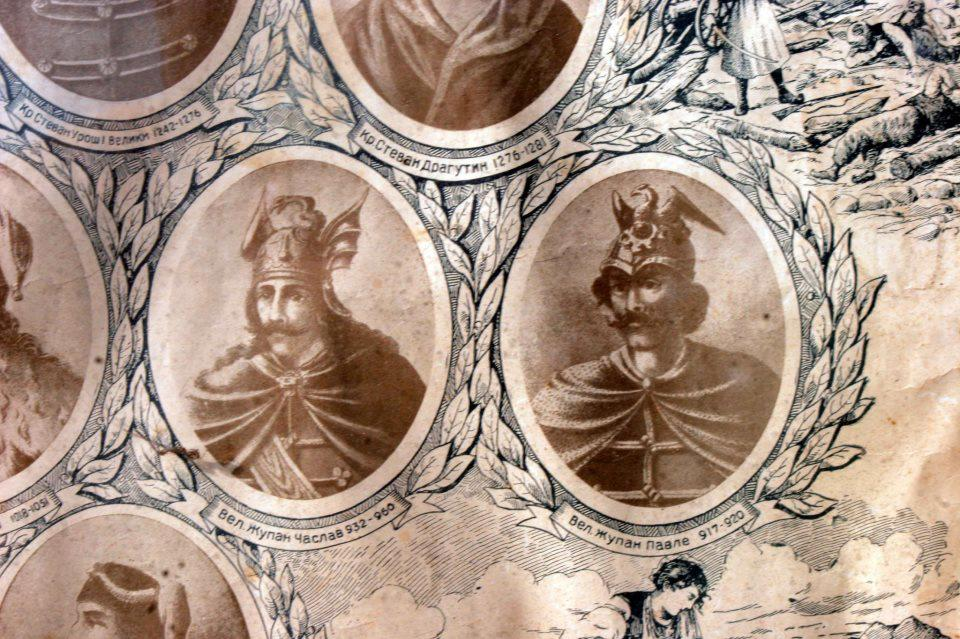 Illustrations by F. Lerh, "Grand Prince Časlav (932-960)" and "Grand Prince Pavle (917-920)" Srpskohrvatski / српскохрватски: ilustracije F. Lerha, "Veliki Župan Časlav (932-960)" i "Veliki Župan Pavle (917-920)"